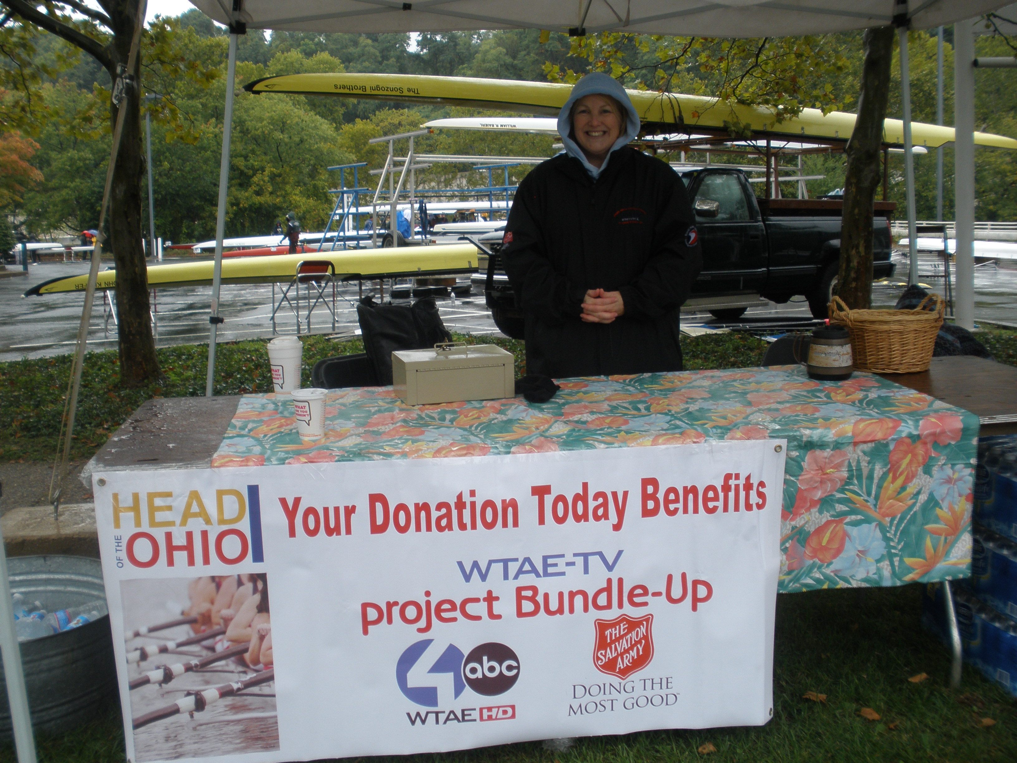 Welcome to Head of the Ohio from the Three Rivers Rowing Association